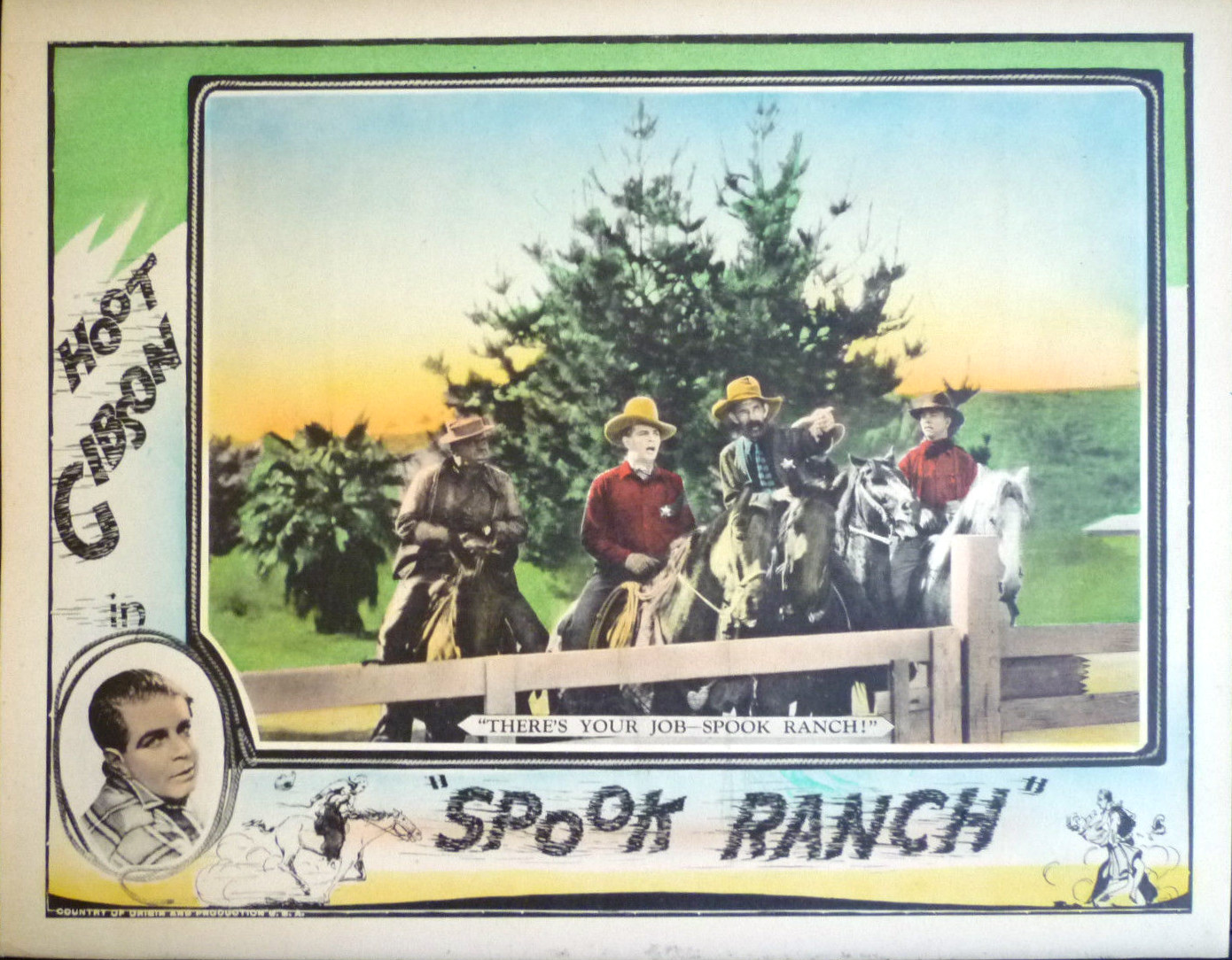 Lobby card for the American western film Spook Ranch (1925).